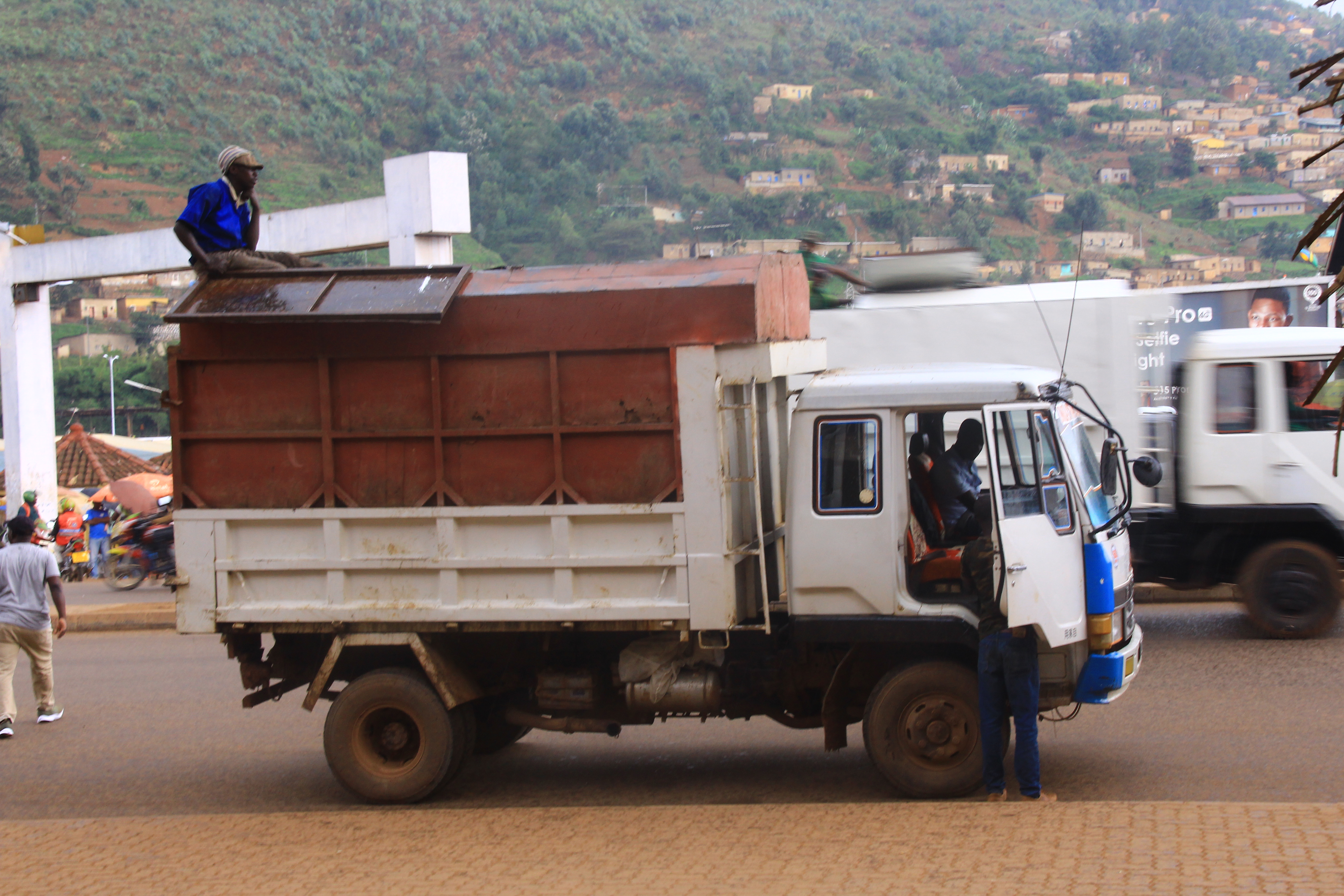 A truck transporting home trashes in Kigali This is an image with the theme "Africa on the Move or Transport" from: Rwanda